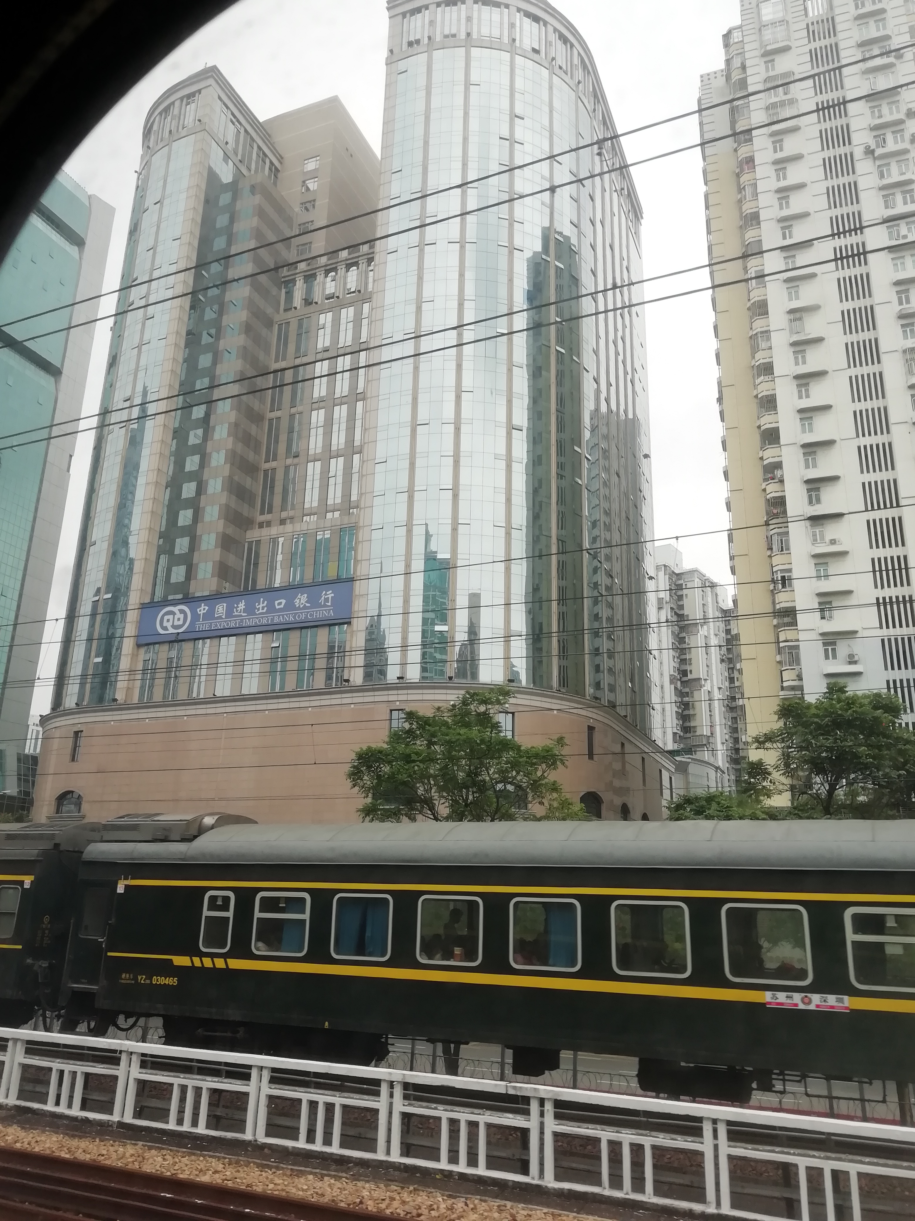 K34 (Shenzhen-Suzhou) departed from Shenzhen Railway Station. 中文（中国大陆）: 发往苏州的K34次列车从深圳站发出